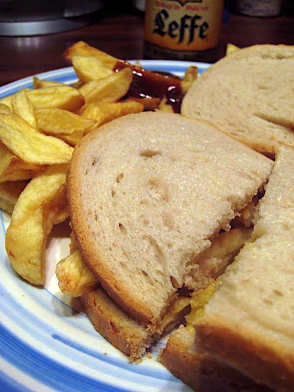 Just as Nigel Slater recommends